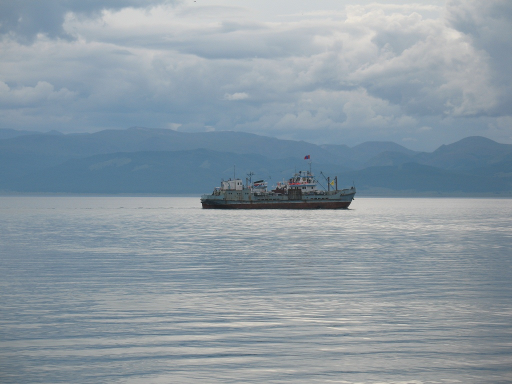 Hubsugul lake 11